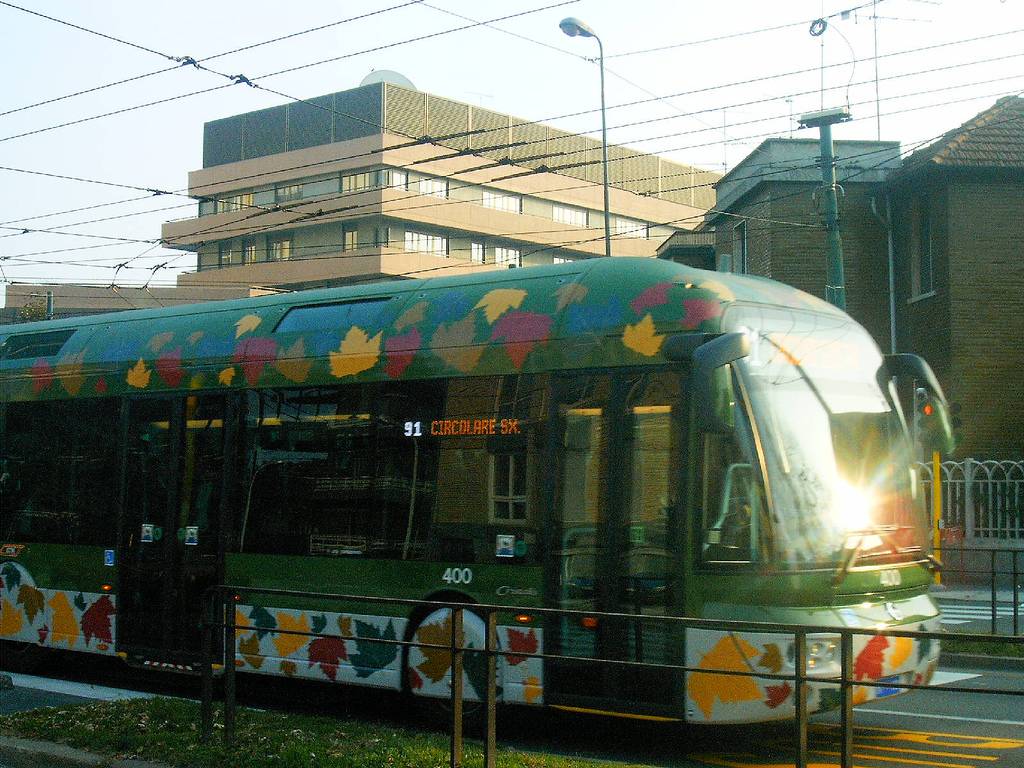 Trolleybus of model Irisbus Cristalis, used in Milano, Italy since 2005